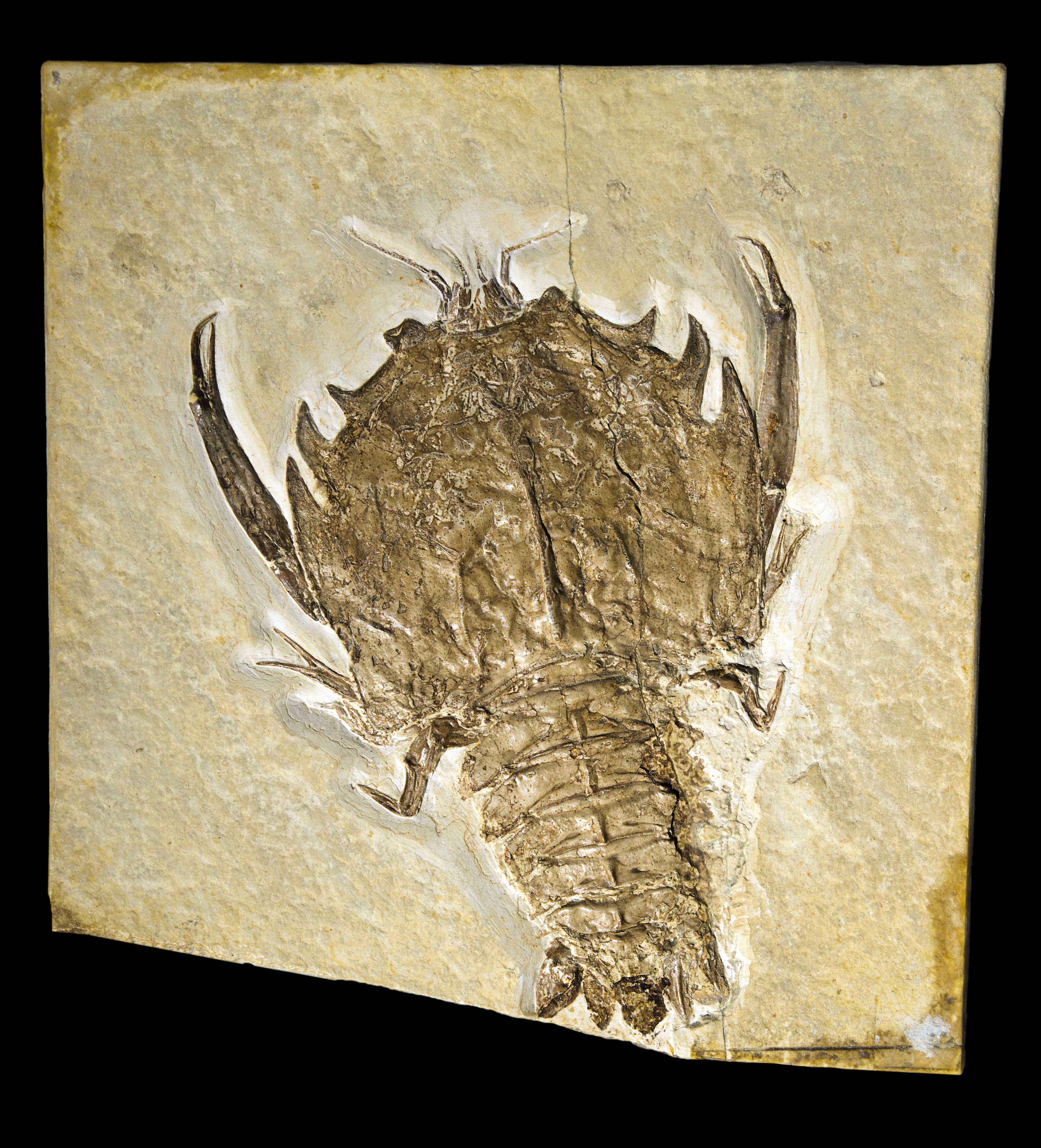 Eryon cuvieri Stage: Tithonian 150.8 ± 4 Ma and 145.5 ± 4 Ma (million years ago) Locality : Solnhofen Plattenkalk, Solnhofen, Germany